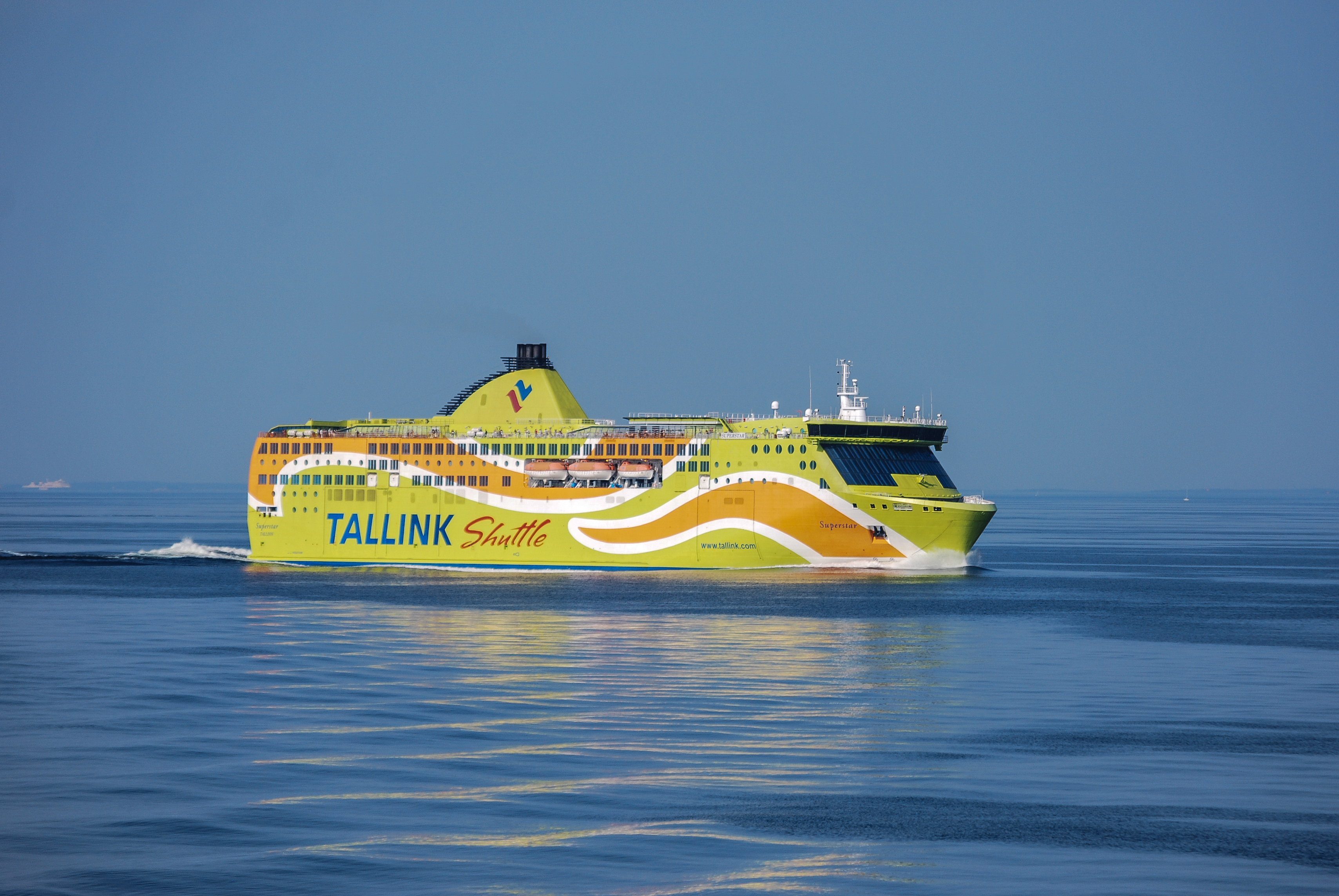 Tallink Shuttle ferry, SUPERSTAR - IMO 9365398, arriving at Helsinki, Finland from Tallinn, Estonia on June 10, 2011.